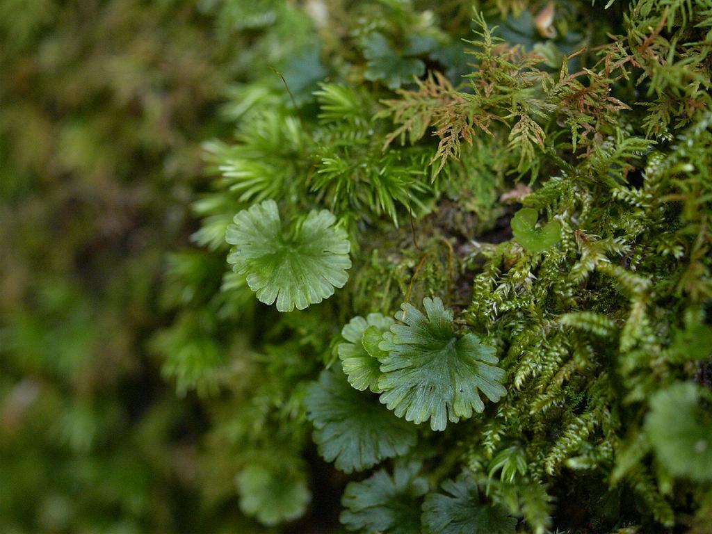 Crepidomanes_minutum(Hymenophyllaceae)